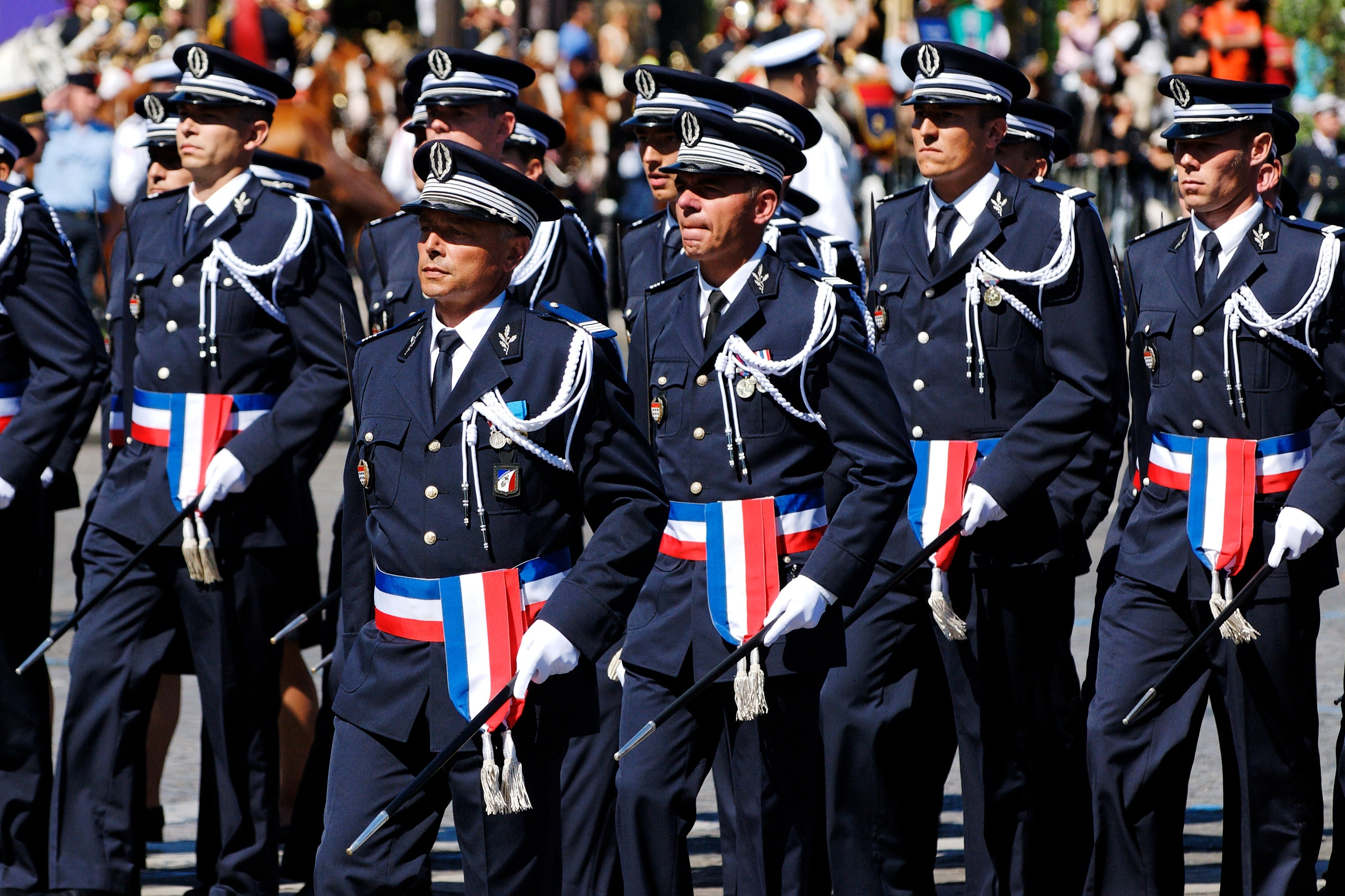 Trainees of the French National Police Academy, Bastille Day 2008 military parade on the Champs-Élysées, Paris.